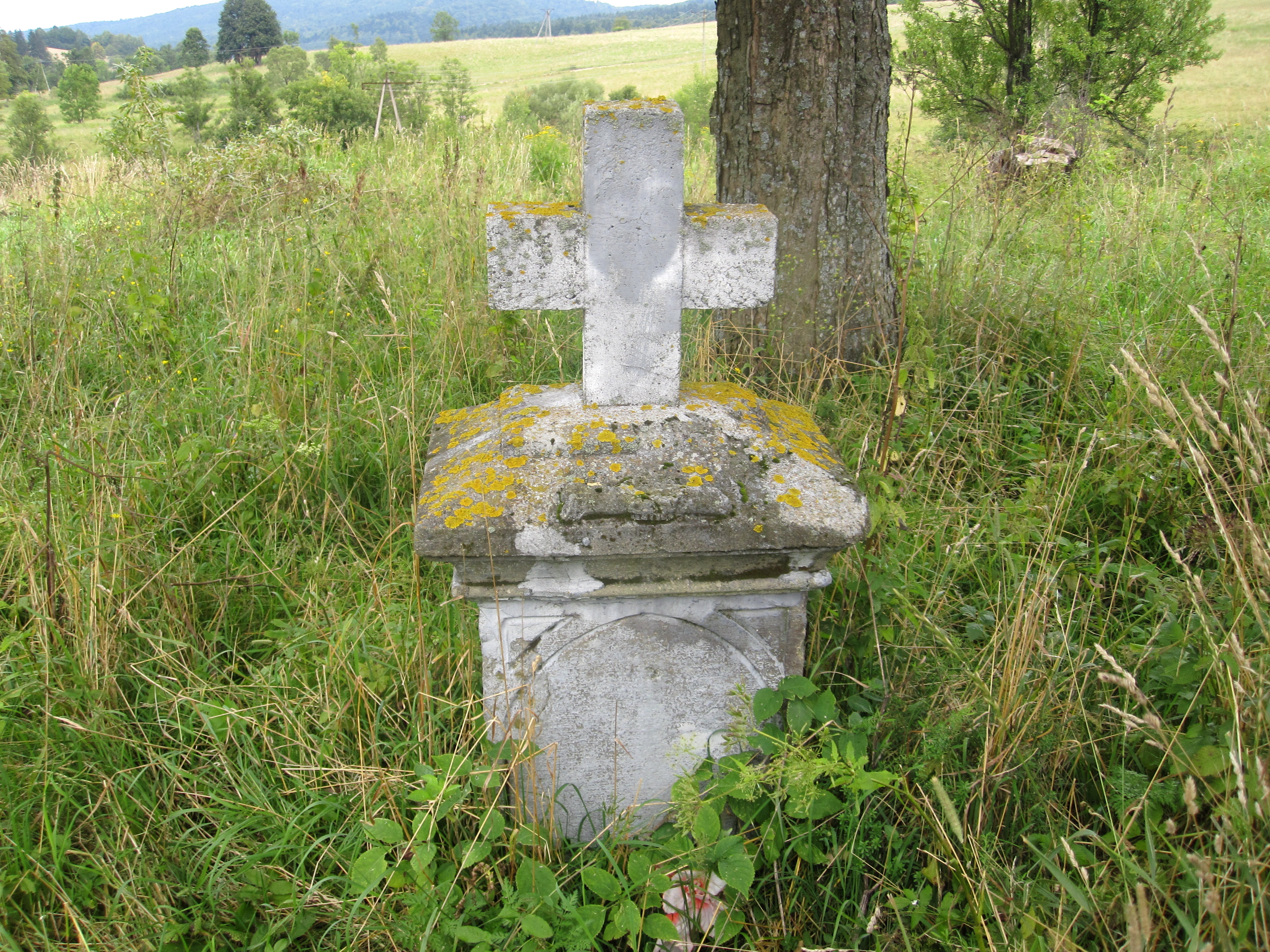 Cemetery in Osławica